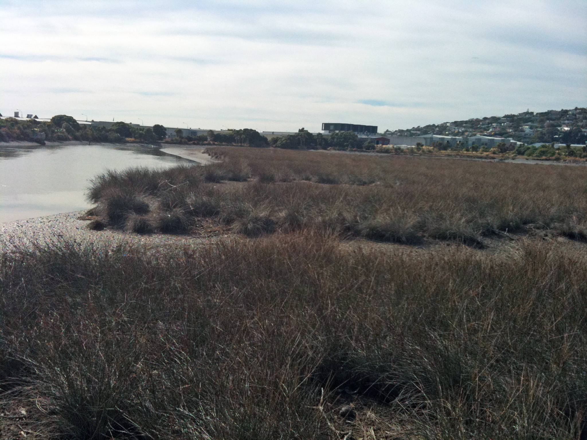 Photo I took at low tide of the Heathcote River Estuary Salt Marsh in Christchurch, New Zealand